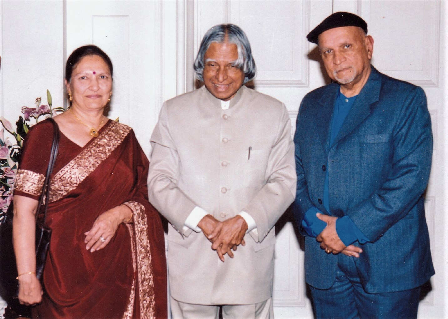 Navin Doshi with former President APJ Abdul Kalam in 2015